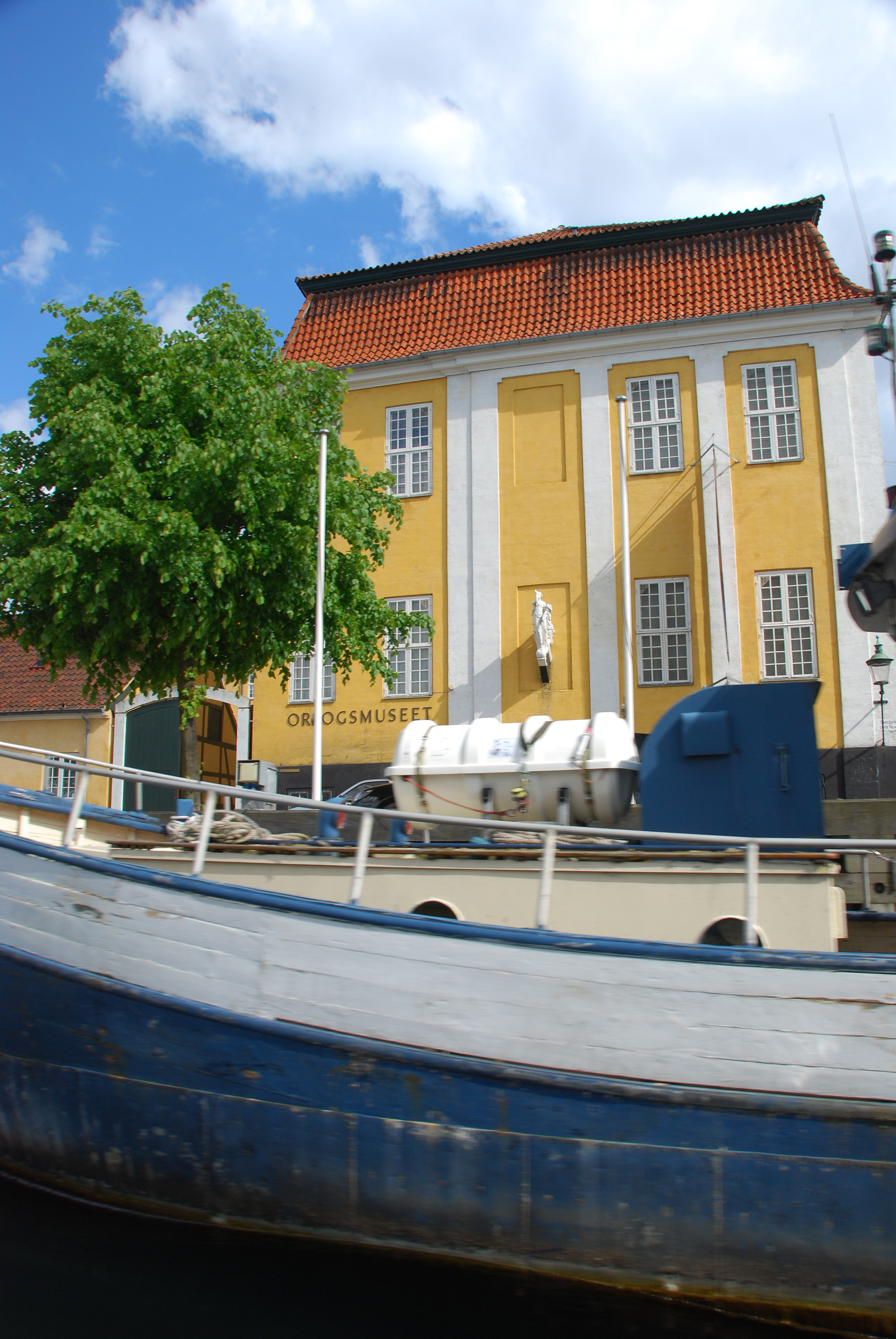 Royal Danish Naval Museum in the Søkvæsthuset nuilding at Christianshavns Kanal in Copenhagen, Denmark